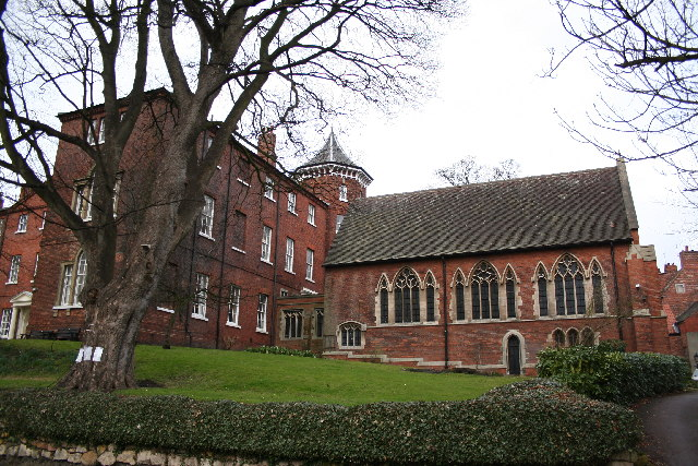 Chapel at Chad Varah House. In the Decorated style by Temple Moore in 1906 when this was a Theological College